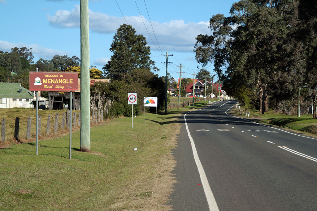 Town entrance sign, Menangle NSW Australia